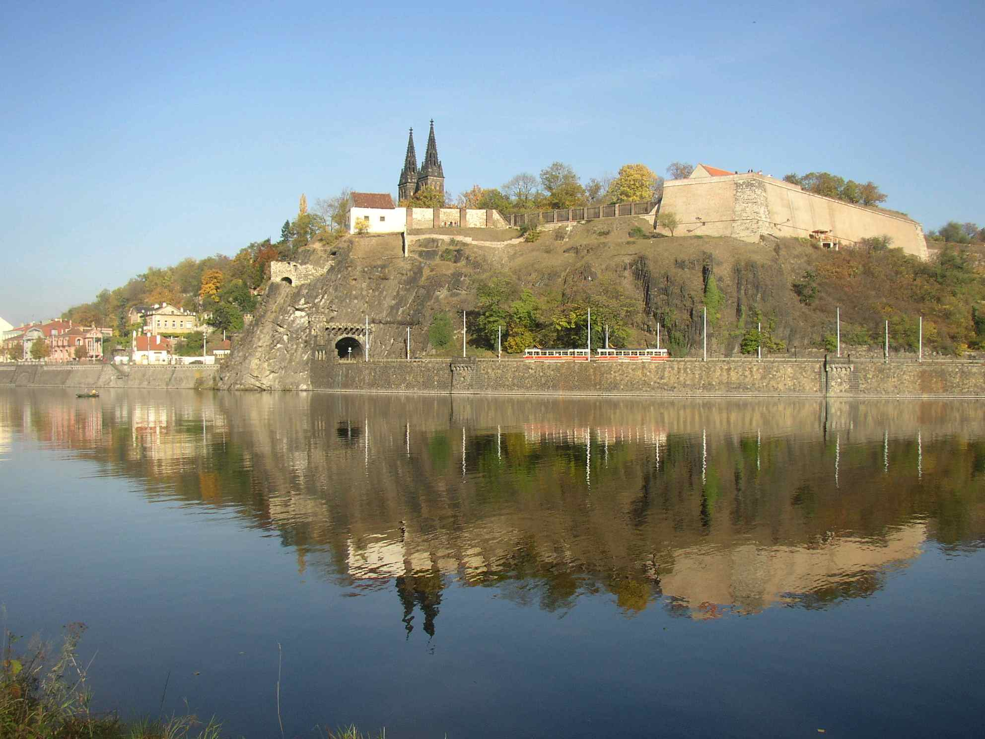 Vyšehrad Castle in Prague, Czech Republic as seen over the Vltava River from the Císařská louka Island (the island is accessible from Lihovar tram or bus stop) Photo taken by Miaow Miaow in October 2005, PD-self